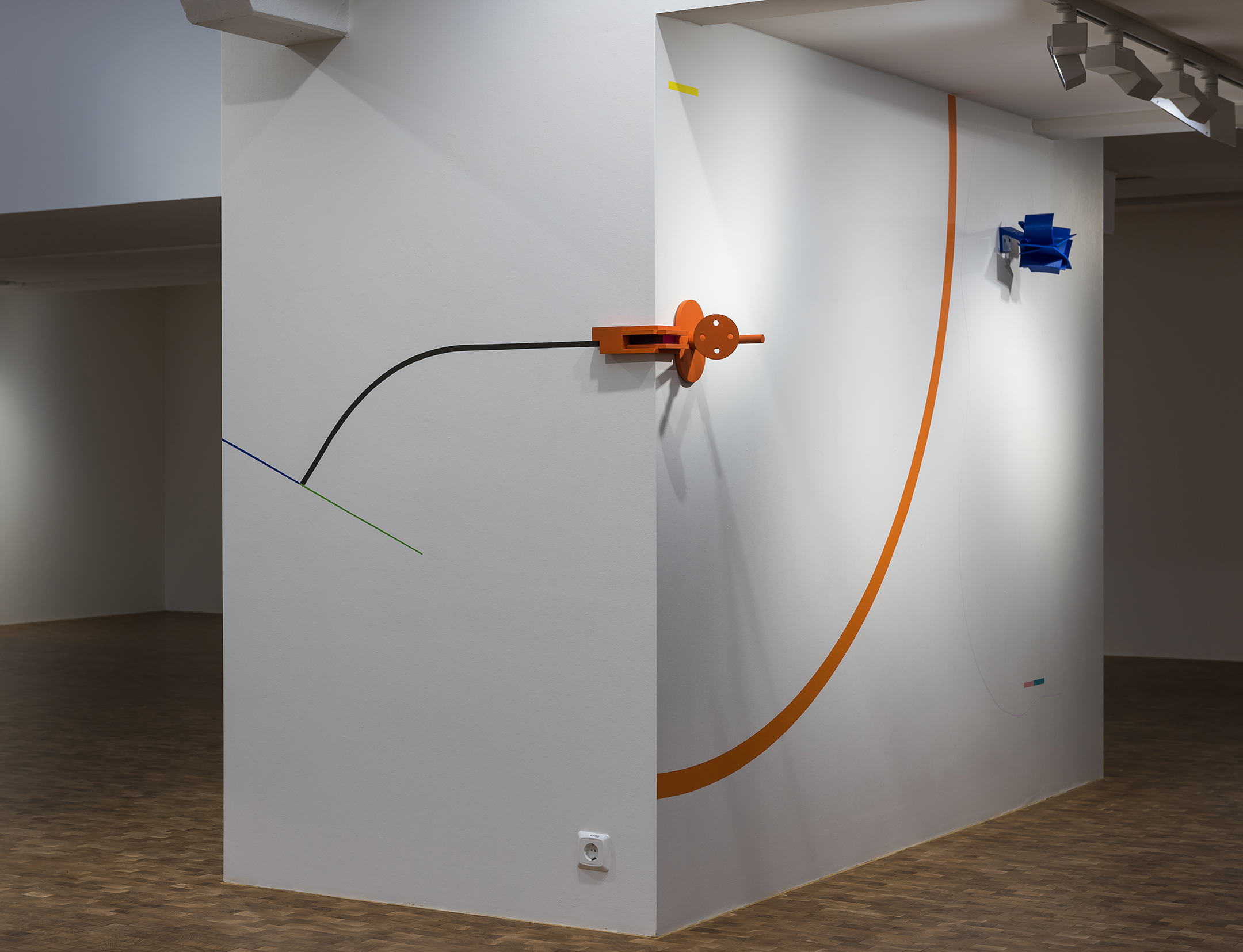 Susanne Kathlen Mader, wallpainting and sculptures combined, exhibition view, Ålesund Kunstforening 2018.